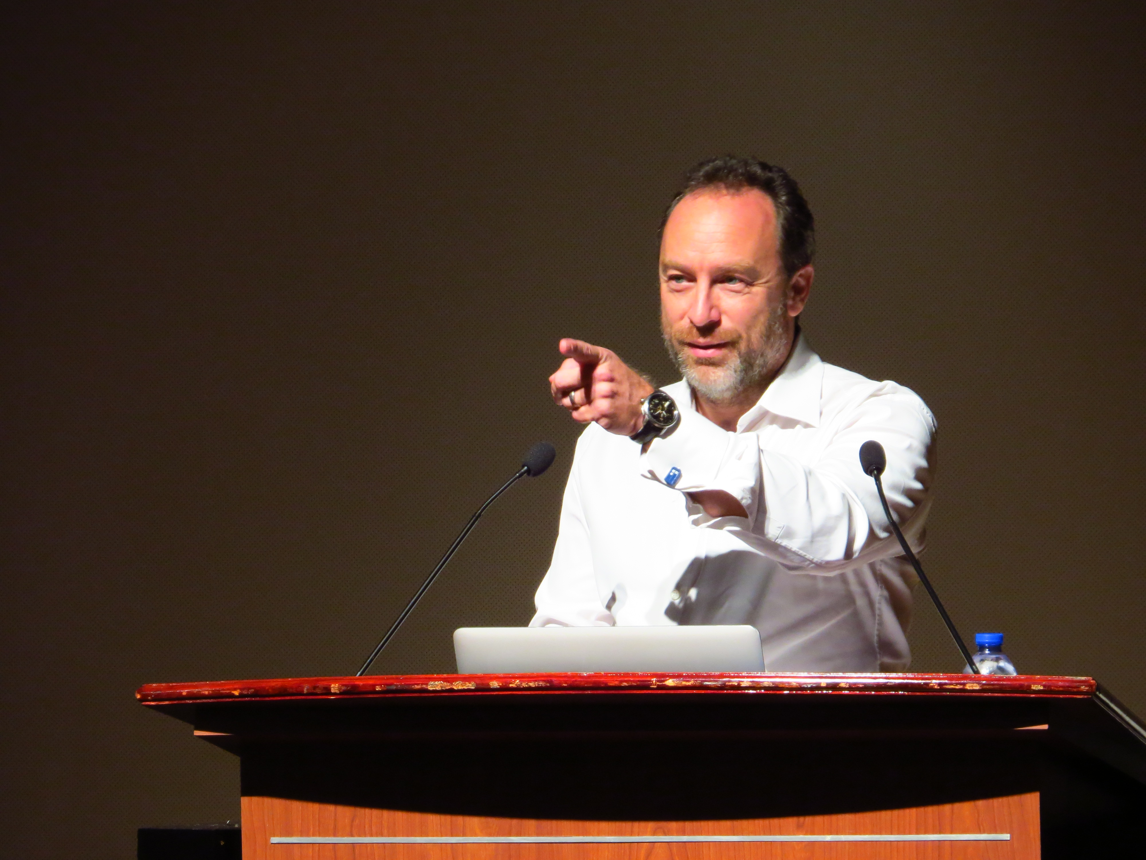 Jimmy Wales during opening ceremony speech at Wikimania 2013, Hong Kong